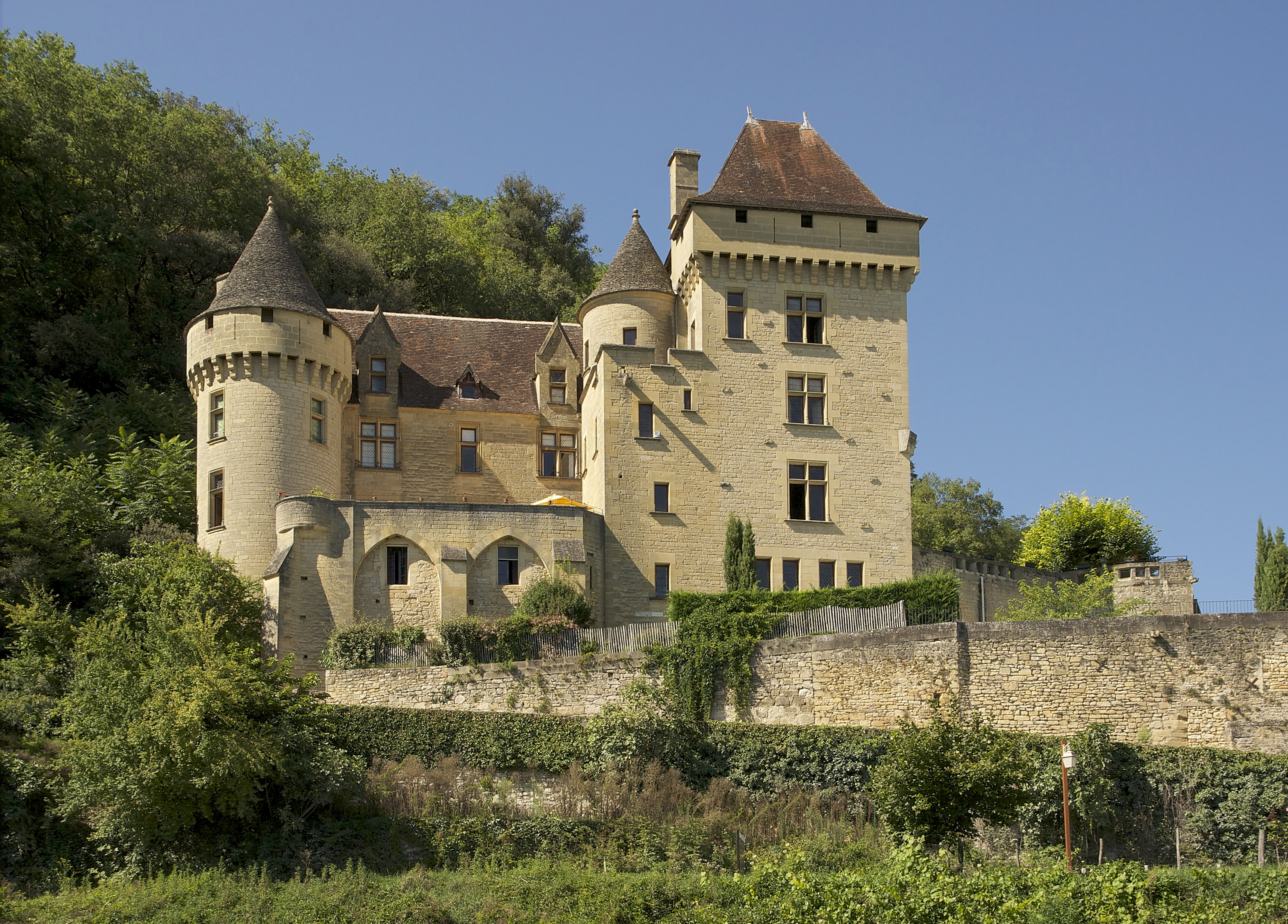 The Malartrie castle (19th century) in Vézac (Dordogne, Aquitaine, France).